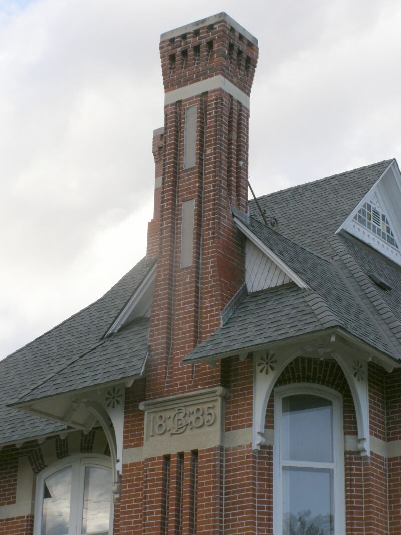 George Brown Mansion, Chesterton, Indiana (Chimney)